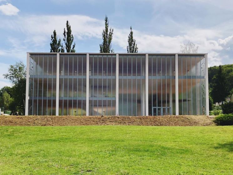 Thomas Bata Memorial - reconstruction